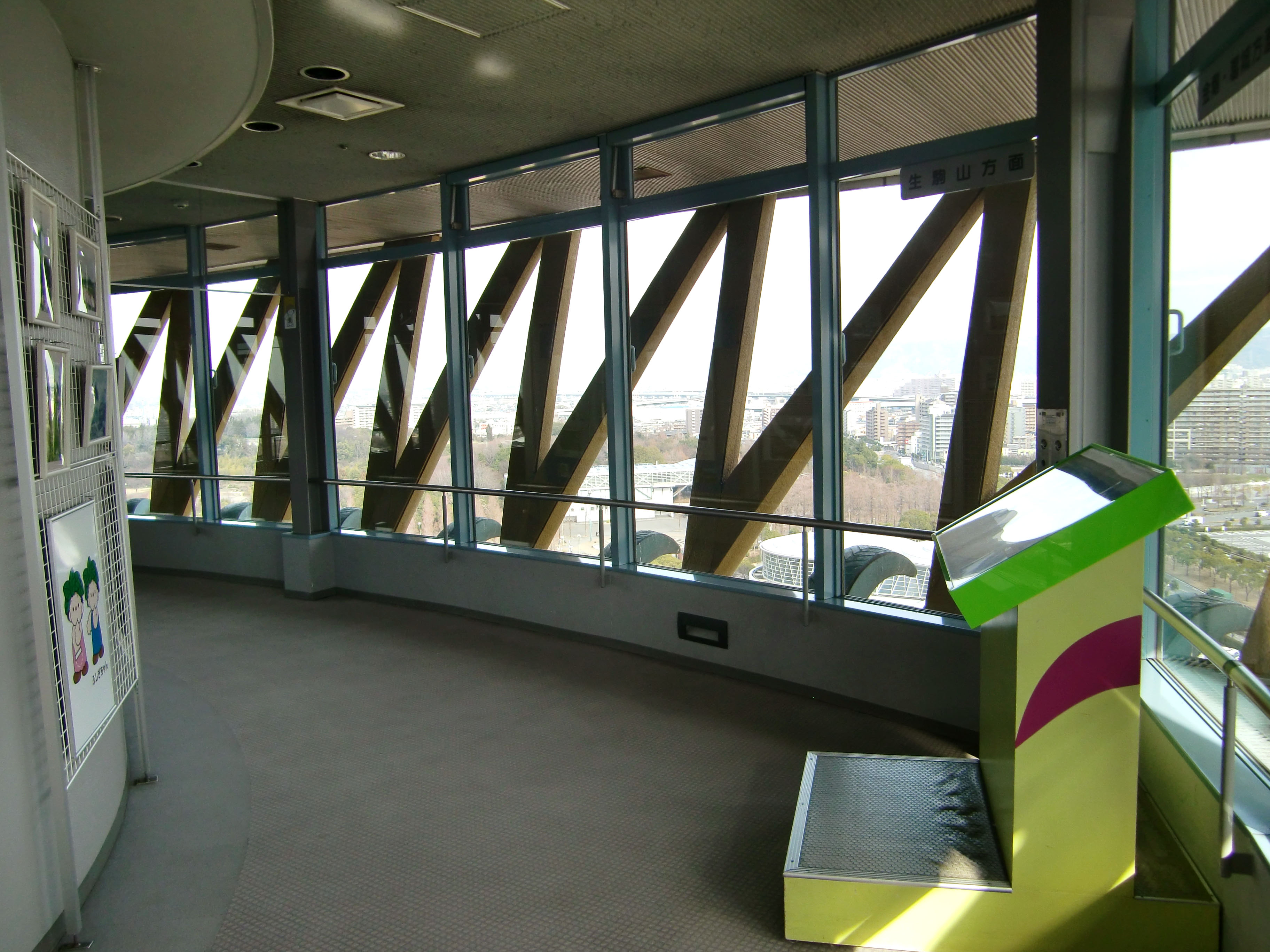 Statue of Life, 2-163 Ryokuchi-koen Tsurumi-ku Osaka-City OSAKA Japan.